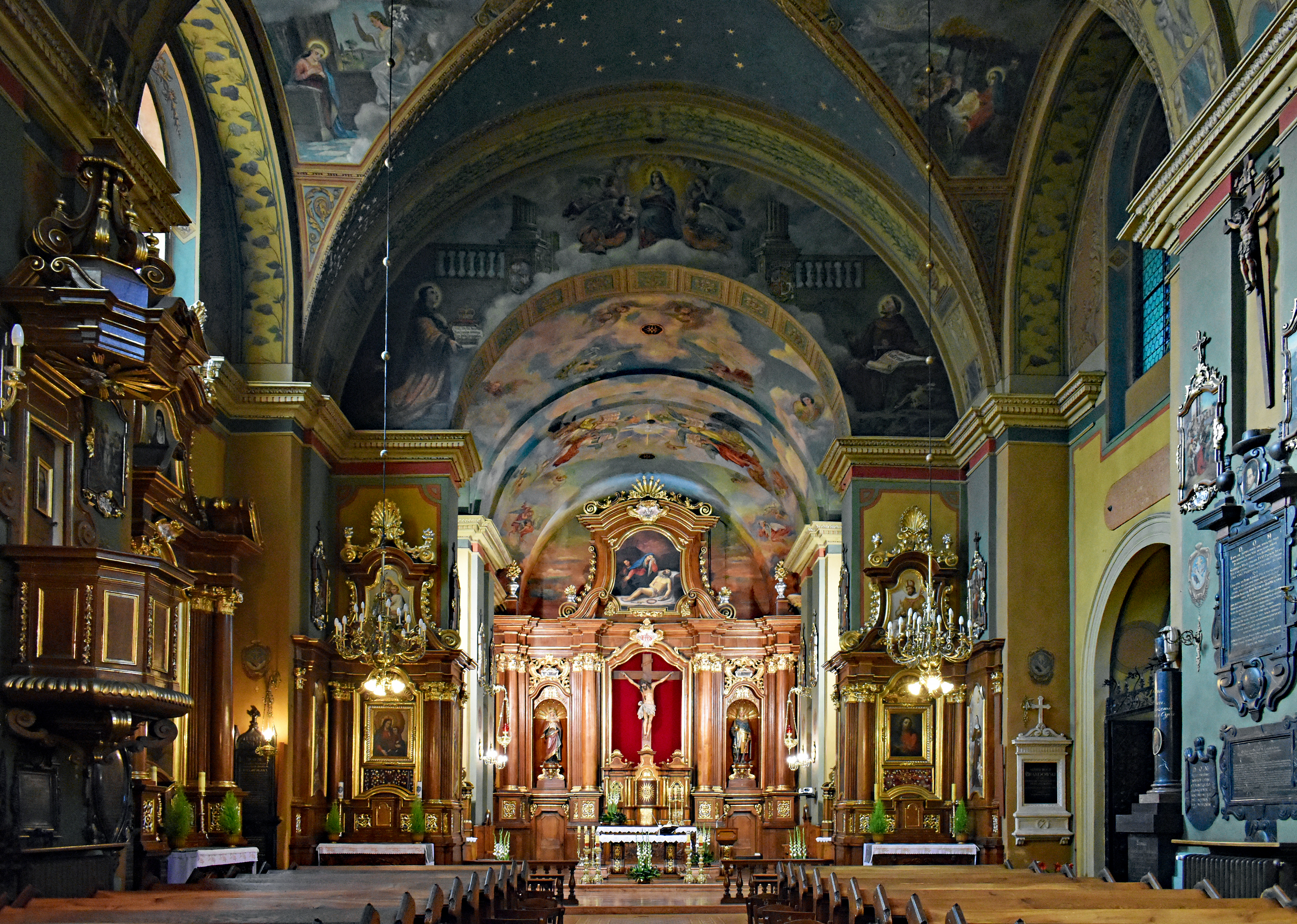 Church of Saint Casimir Jagiellon (interior), 4 Reformacka street, Old Town, Krakow, Poland